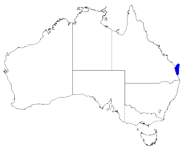 Boronia rivularis downloaded from Australasian Virtual Herbarium 10 April 2019 using This download included all the environmental overlay fields and ALA's data checking fields including "cultivated / escapee", "outside expert range for species", "latitude is negated", "coordinates are transposed", "taxon misidentified", "habitat incorrect for species", and "suspected outlier" (711 fields). Deleting occurrences for which any of the above were true, 46 specimens with coordinates were deleted.